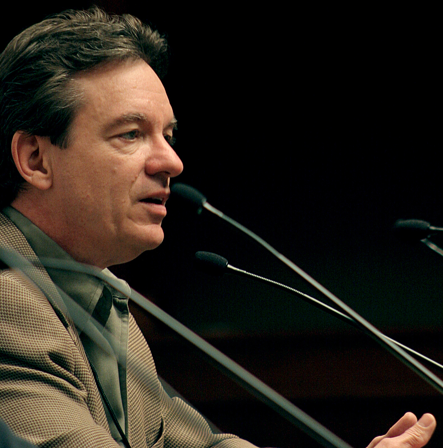 Lawrence Wright (1947– ) DescriptionAmerican author and writer Pulitzer Prize-winning American author, screenwriter, staff writer for The New Yorker magazine, and fellow at the Center for Law and Security at the New York University School of Law. Wright is best known as the author of the 2006 nonfiction book, The Looming Tower: Al Qaeda and the Road to 9/11. Graduate of Tulane University.Date of birth2 August 1947Location of birthOklahoma CityAuthority control : Q353893 VIAF: 88015883 ISNI: 0000 0001 1030 5770 LCCN: n79001569 GND: 119474204 SELIBR: 277678 WorldCat